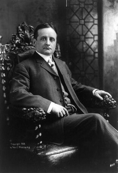 John F. Fitzgerald (1863 - 1950), an American politician, a Mayor of Boston